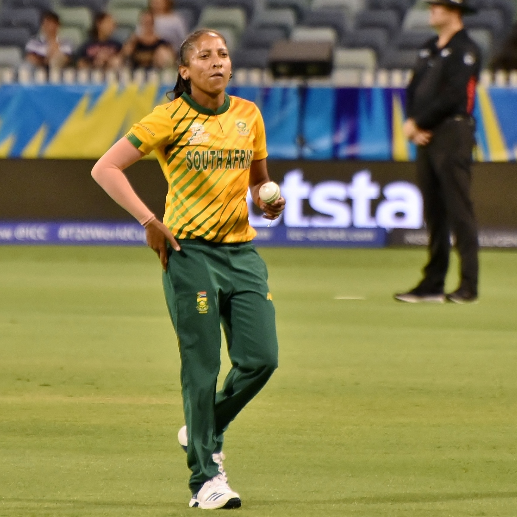 Shabnim Ismail walking back to her mark while bowling for South Africa against England during their 2020 ICC Women's T20 World Cup match at the WACA Ground in Perth, Australia